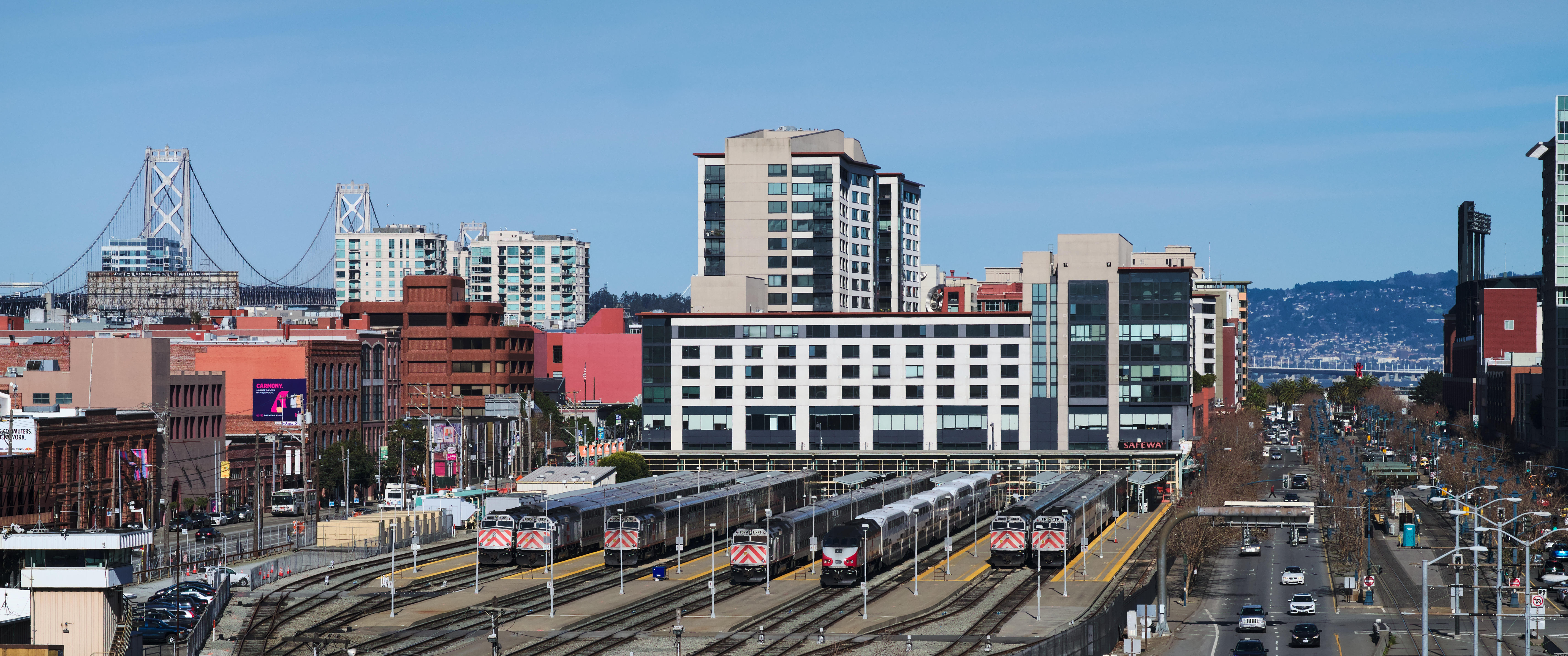 The San Francisco 4th and King Street Station as seen from the I-280 highway.